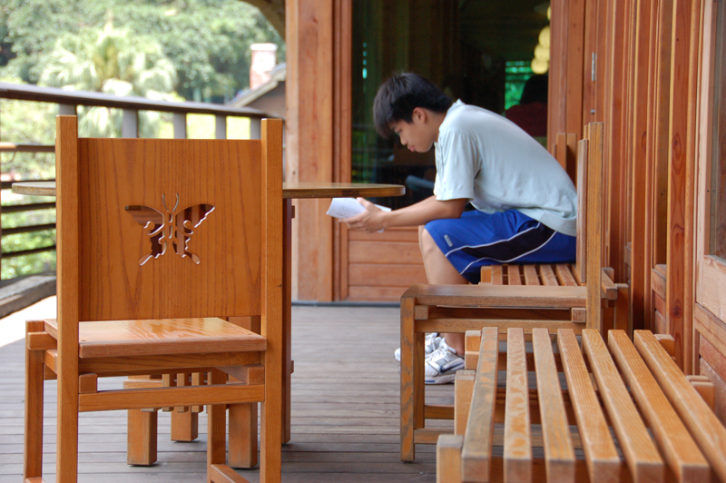 A Taiwanese boy reading a book in the Taipei Public Library Beitou Branch.中文（台灣）: 一個在台北市立圖書館北投分館閱讀的男孩。